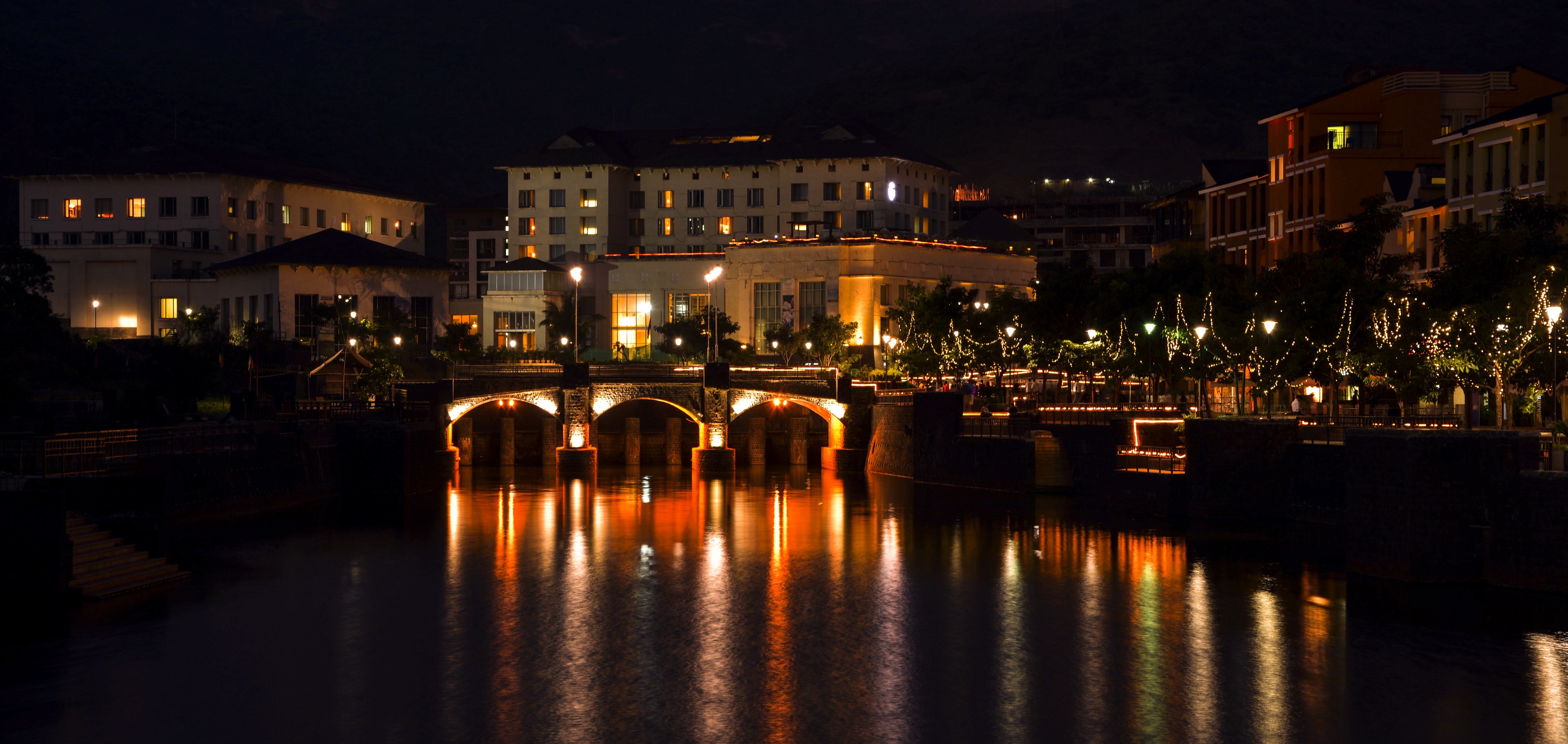 This is a nightscape taken at Lavasa, A Planned City near Pune, India.